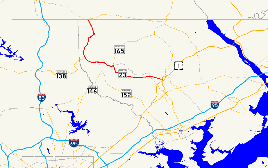 Map of Maryland Route 23